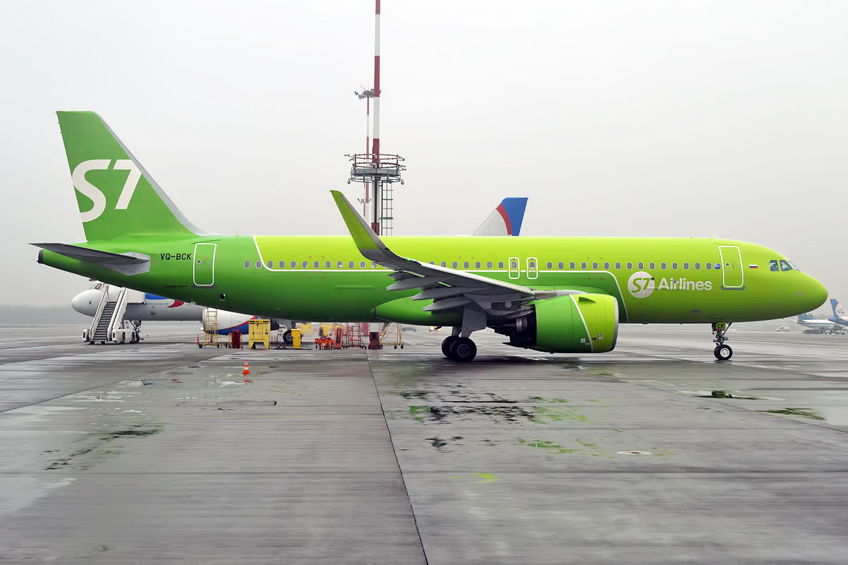 S7 Airlines, VQ-BCK, Airbus A320-271N